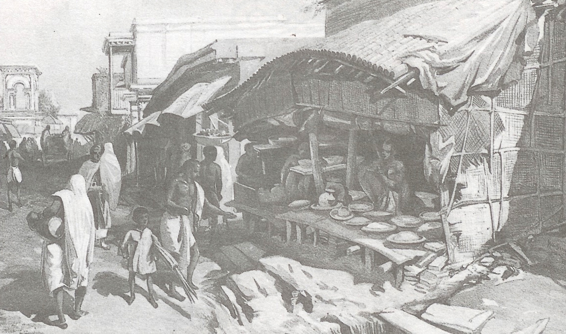 Simpson, India Ancient and Modern. Published in 1867